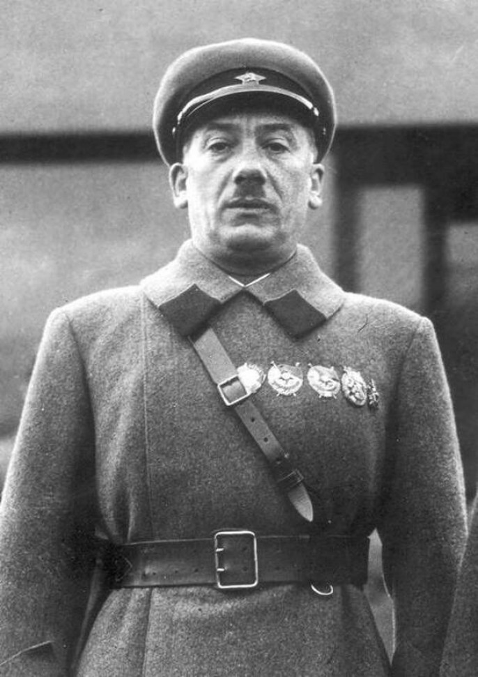 Image of Genrikh Grigor'evich Yagoda, head of the NKVD, the Soviet internal affairs and border guards body, from 1934 to 1936, during may day parade 1936 in moscow.